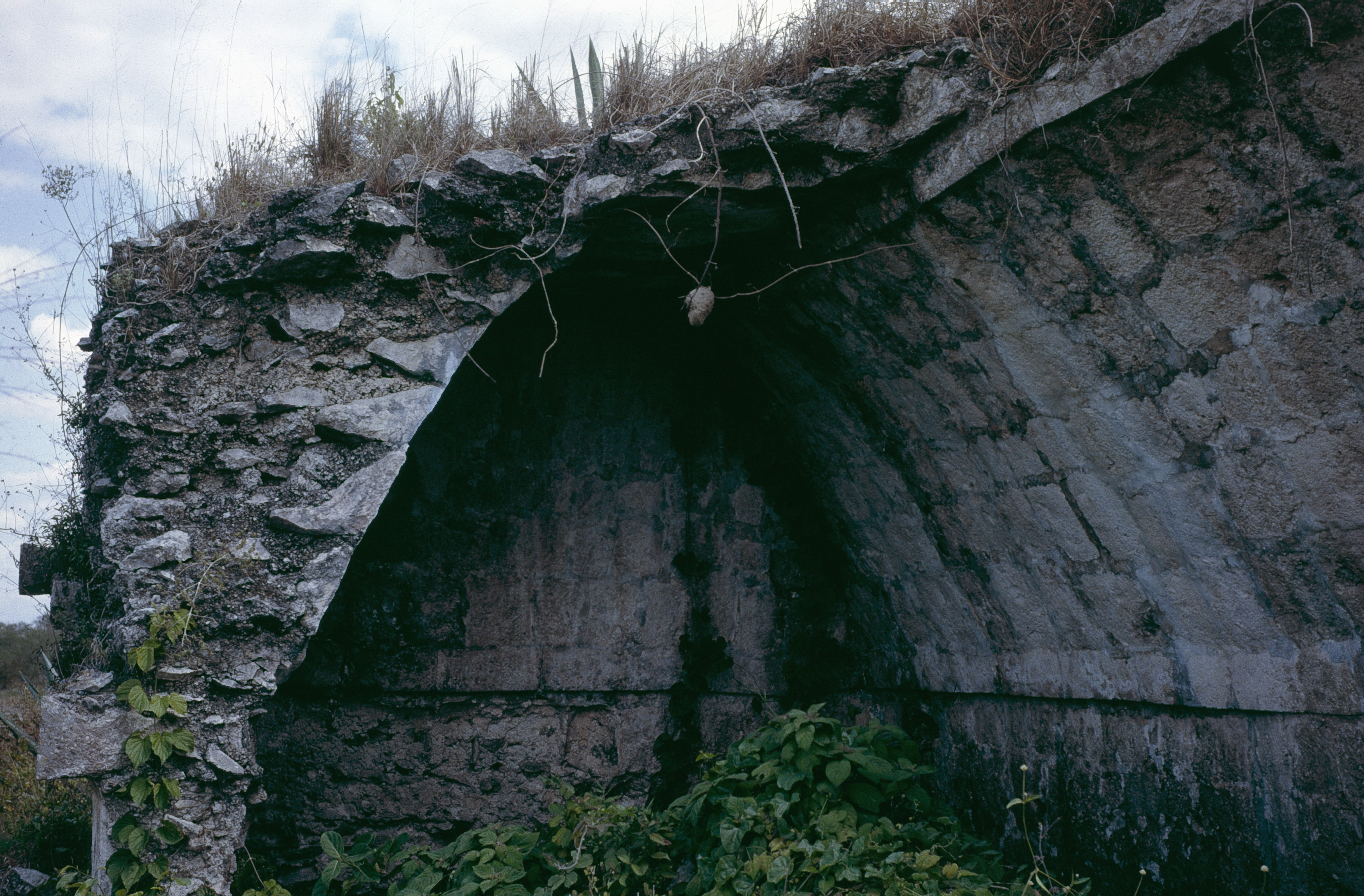 Siho, Yucatan, Mexico: Maya vault